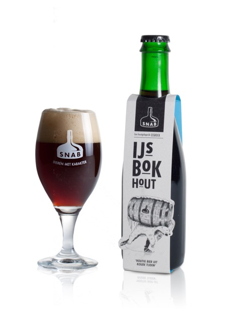 SNAB IJsbok Hout